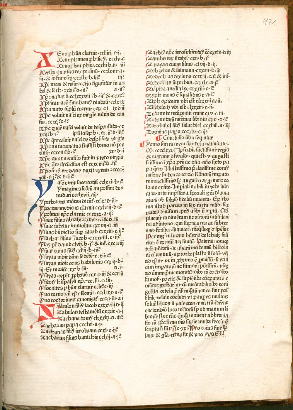 last page and colophon of the Rudimentum novitiorum